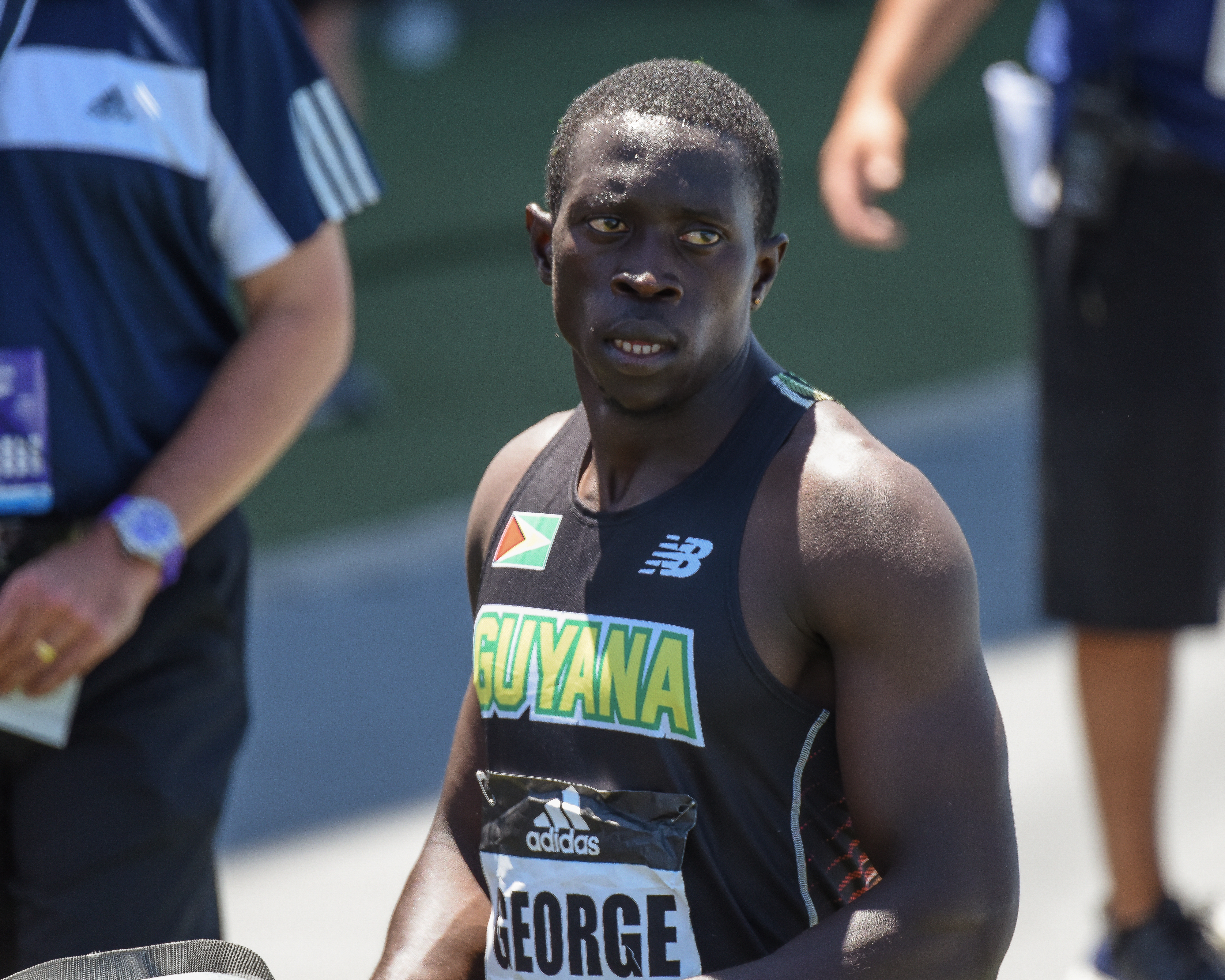 June 13, 2015 Randall's Island New York, NY Track &Field - Adidas Grand Prix - Icahn Stadium